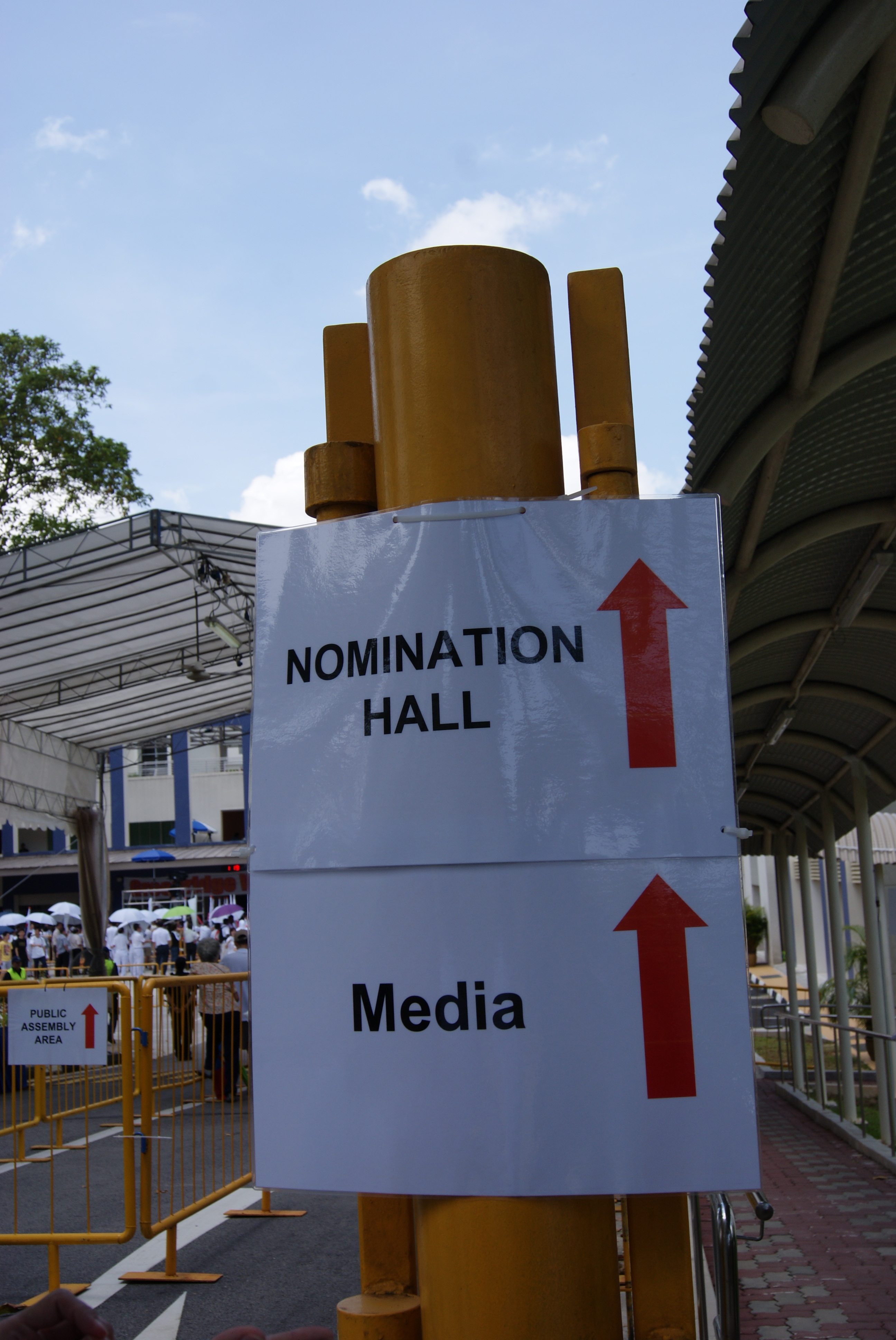 A sign pointing to the nomination hall at Greenridge Secondary School in Bukit Panjang, Singapore, which was used as the nomination centre for Bukit Panjang Single Member Constituency and Holland-Bukit Timah Group Representation Constituency during the Singaporean general election, 2011.